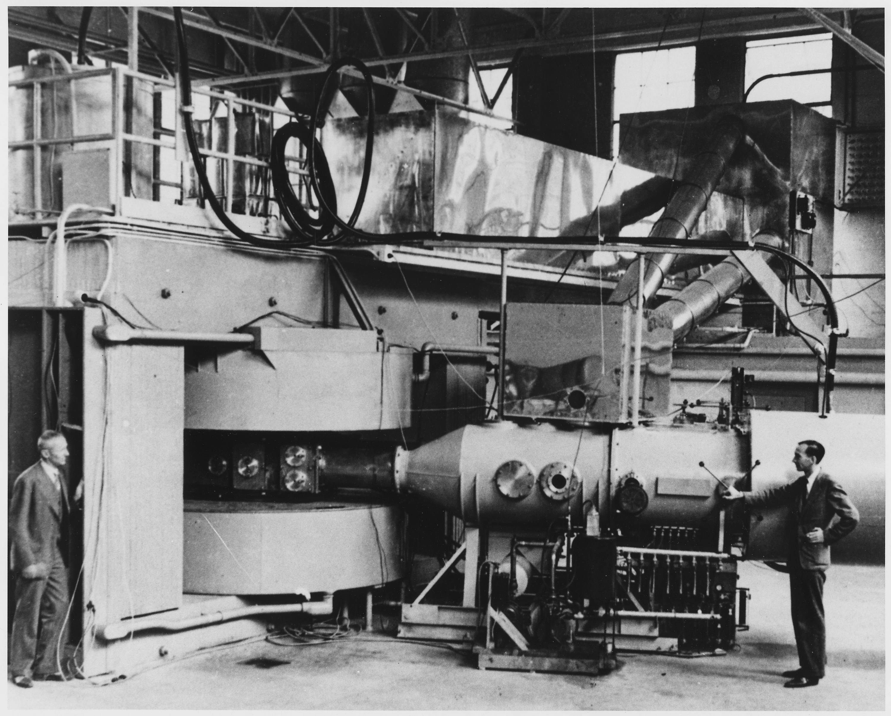 Photograph shows the 60-inch cyclotron at the University of California Lawrence Radiation Laboratory, Berkeley, in August, 1939. The metal frame at left is the machine's huge electromagnet. The flat vacuum chamber in which the particles are accelerated is located in the narrow space between the magnet's 60 inch (152 centimeter, 5 foot) pole pieces. The beamline which analyses the particles resulting from the collisions is at right. The machine was the most powerful particle accelerator in the world at the time. It had started operating early in the year. During the period of the photograph Dr. Edwin M. McMillan was doing the work which led to the discovery of neptunium (element 93) a year later. The instrument was used later by Dr. Glenn T. Seaborg and his colleagues for the discovery of element 94 (plutonium) early in 1941. Subsequently, other transuranium elements were discovered with the machine, as well as many radioisotopes, including carbon-14. For their work, Drs. Seaborg and McMillan shared the Nobel Prize in 1951. The machine was used for the "long bombardments" which produced the first weighable and visible quantities of plutonium, which was used at Chicago by Seaborg and his colleagues to work out the method for separating plutonium on an industrial scale at the Hanford, Washington, plutonium pro...